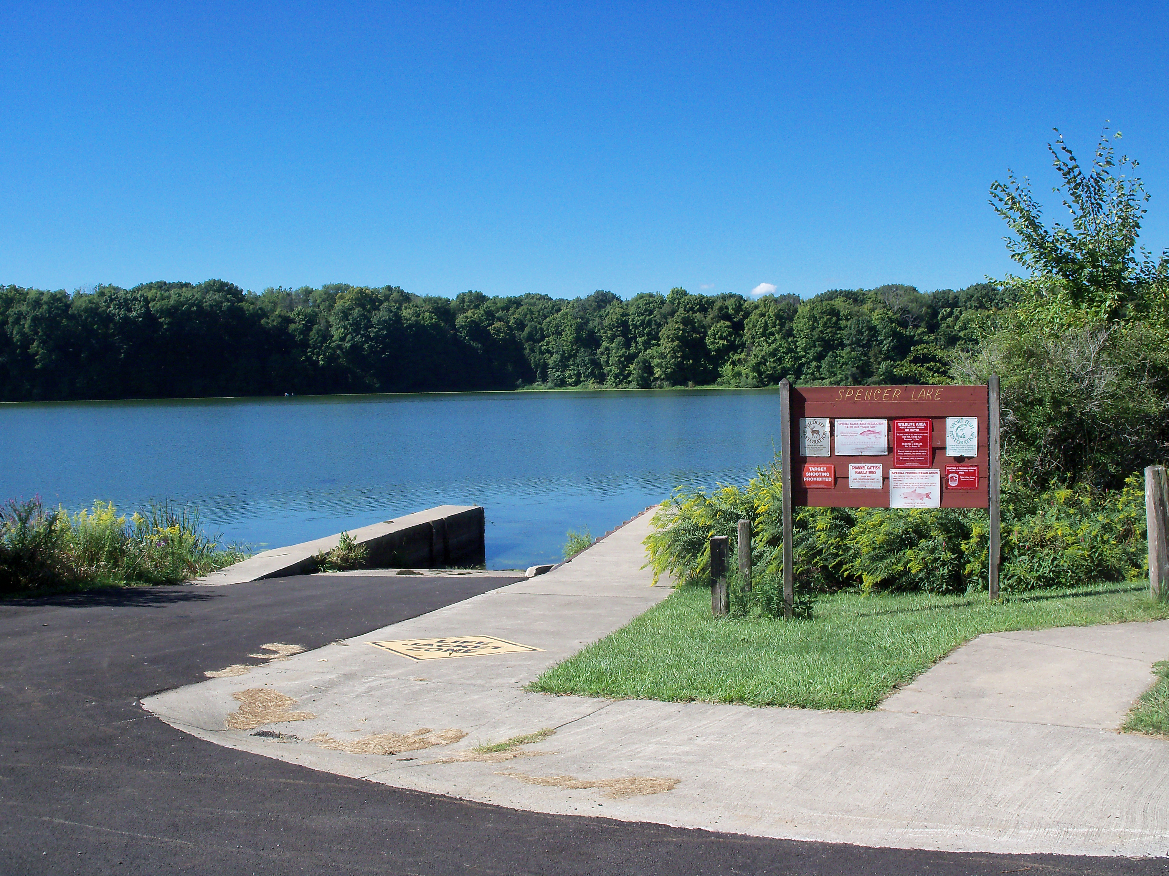 Spencer Lake is located northeast of Spencer, Ohio